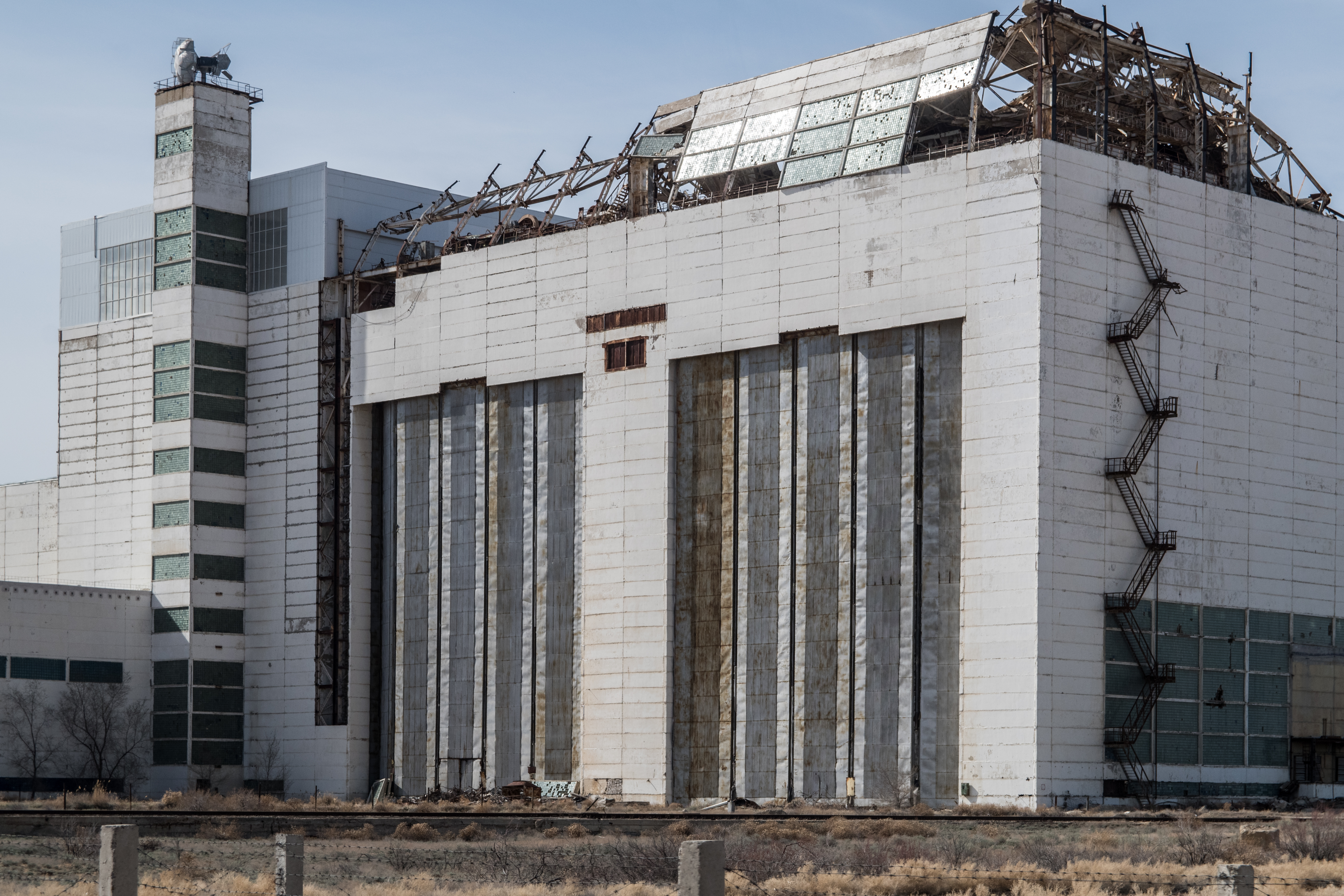 The collapsed roof of this hangar destroyed the only Buran that ever flew in space.